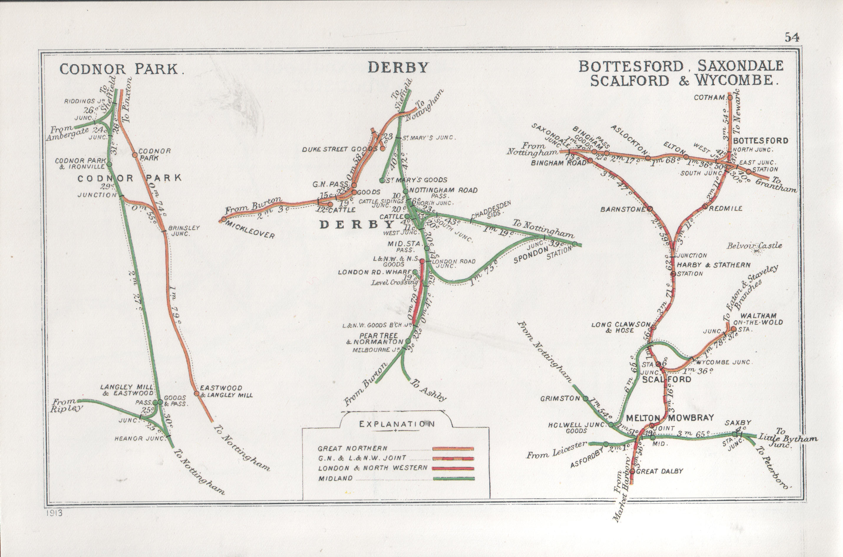 Pre Grouping railway junction around Codnor Park; Derby; Bottesford, Saxondale, Scalford & Wycombe